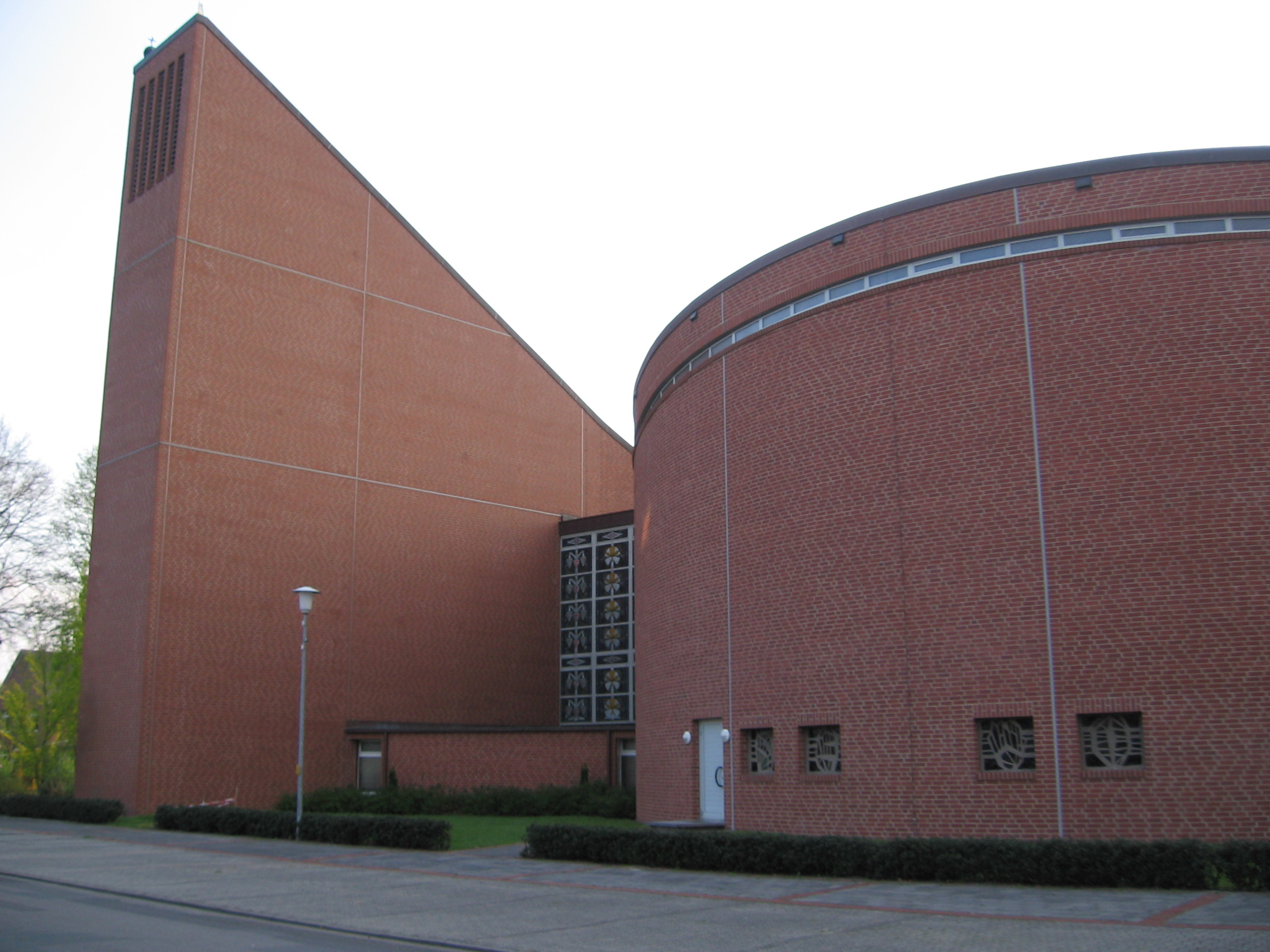 Catholic church in the German municipality Twist (district Twist-Siedlung)